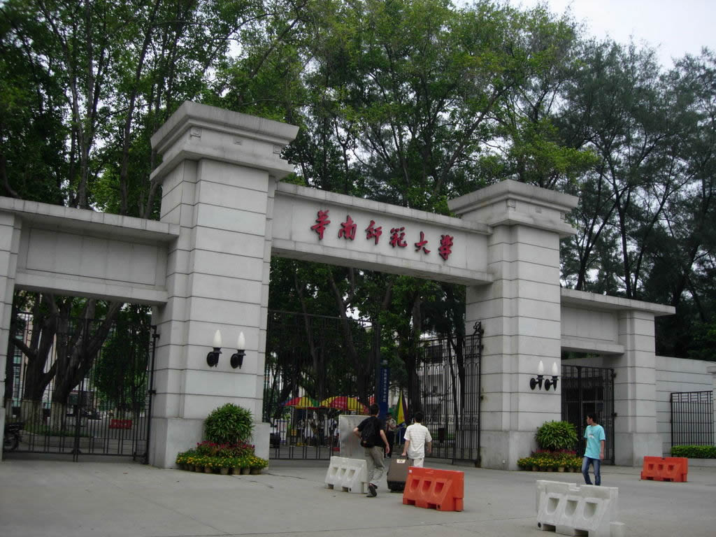 South China Normal University gate